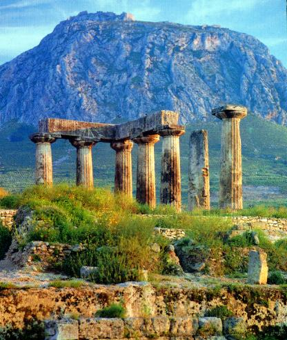 Temple of Apollo, Ancient Corinth, Greece